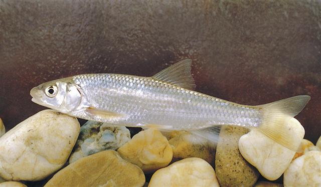 Leuciscus leuciscus from Vadasz-Patak river (Hungary).